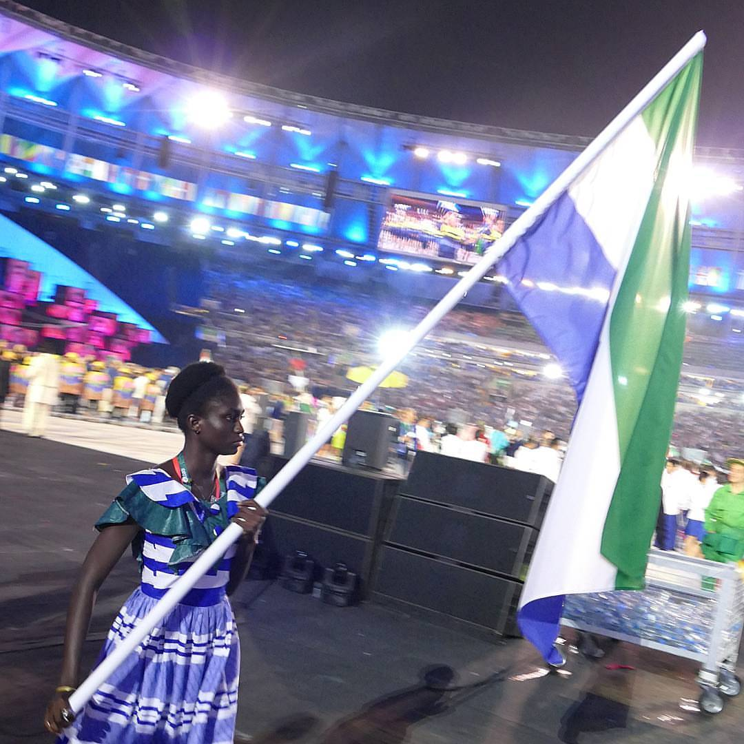 The flag bearer of Sierra Leone Bunturabie Jalloh (swimmer) at the opening ceremony of the 2016 Summer Olympics in Rio de Janeiro.